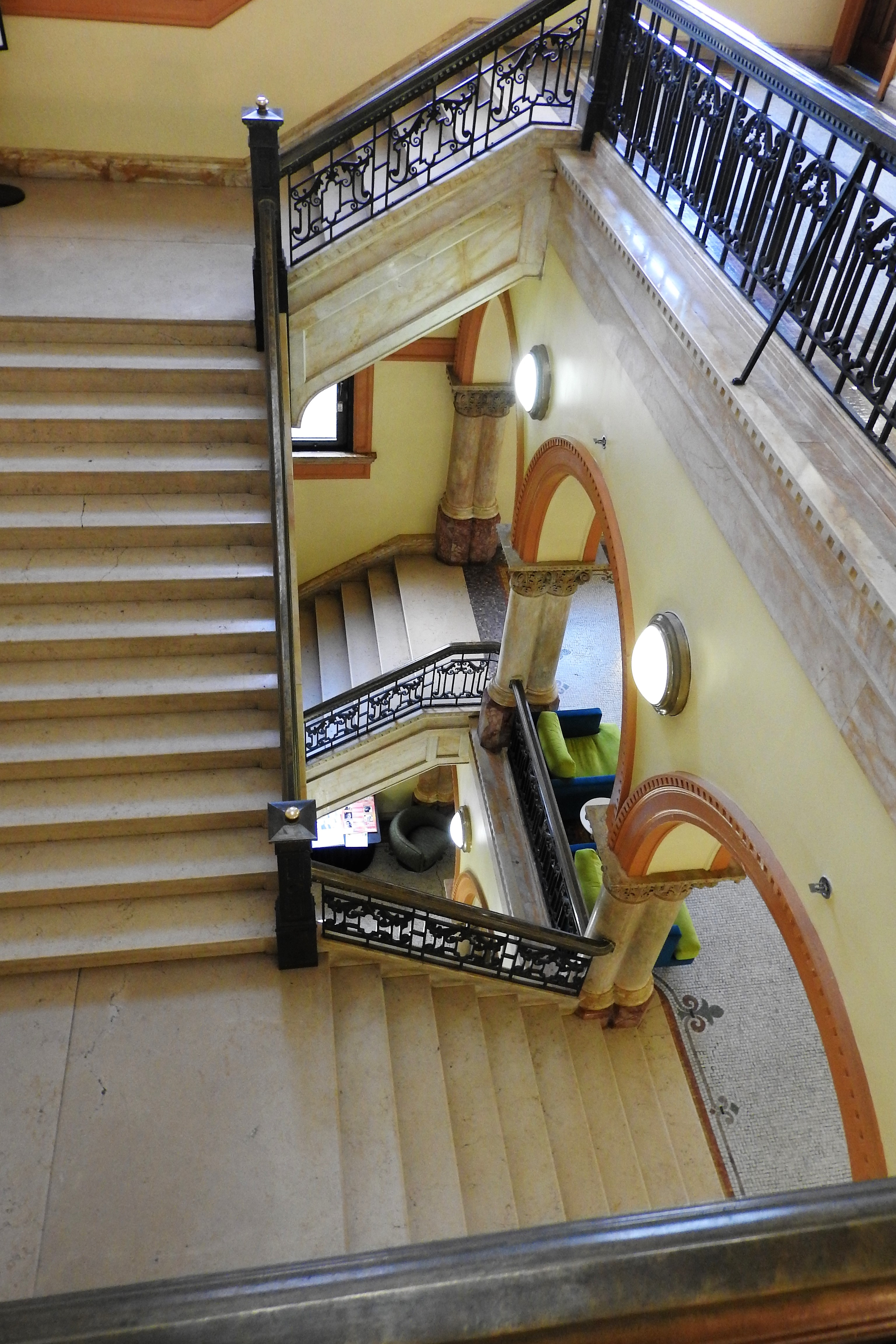 Looking north and down from the third floor of the library